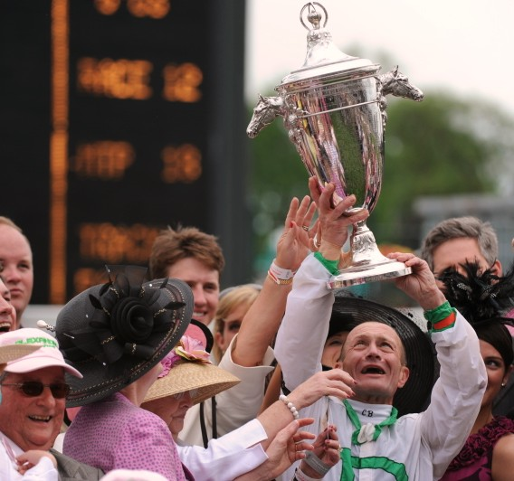 Calvin Borel hilding up the Kentucky Oaks trophy